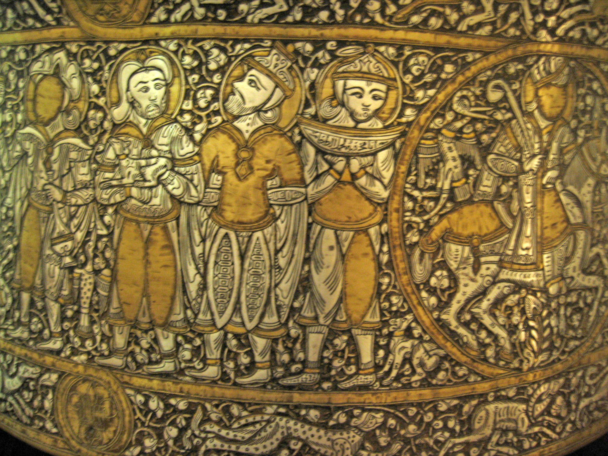 Basin with a procession of officials and four riders in roundels (exterior band); friezes of animals and coats-of-arms (interior band).